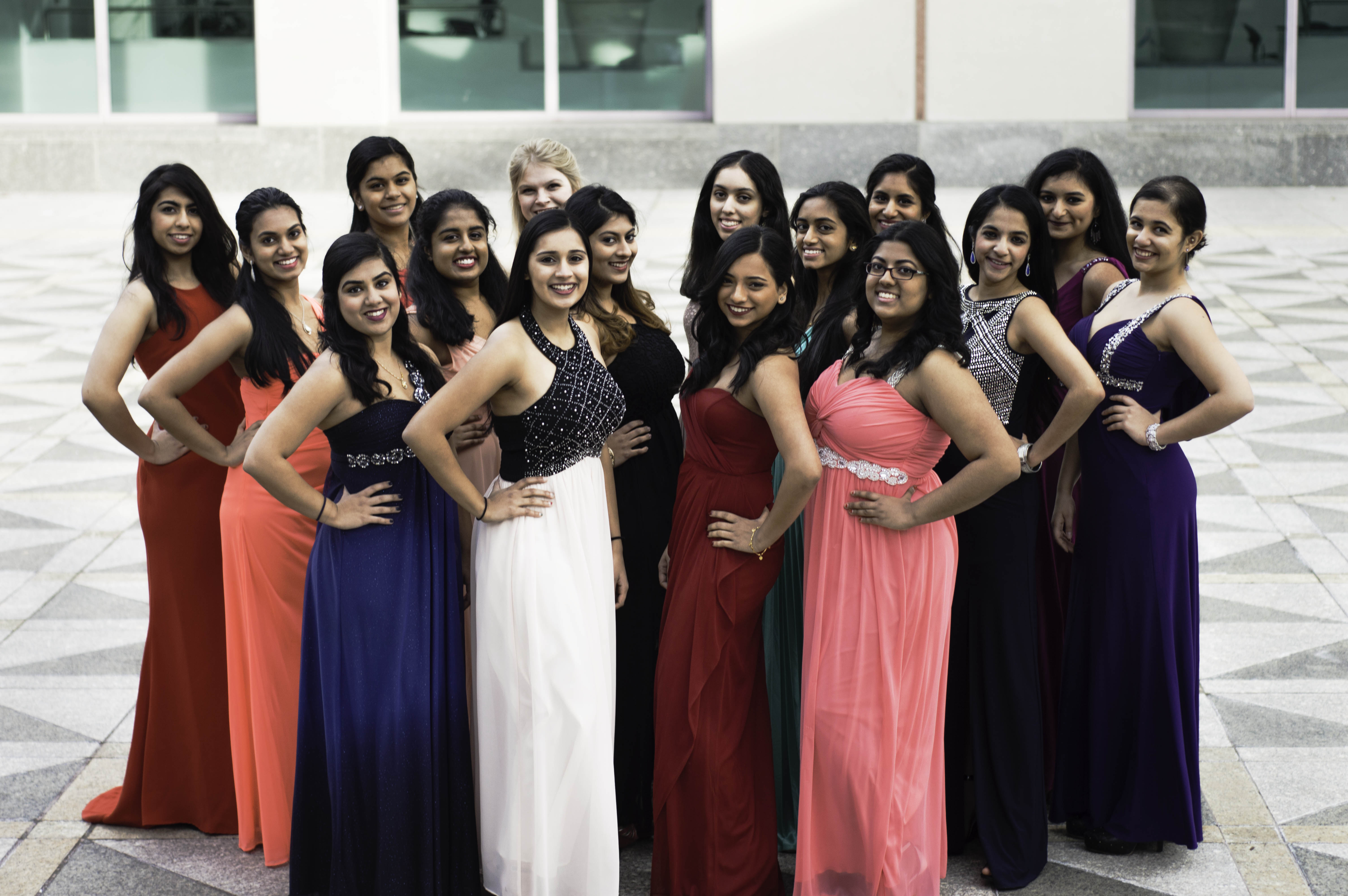 The PENNaach team, 2016-2017